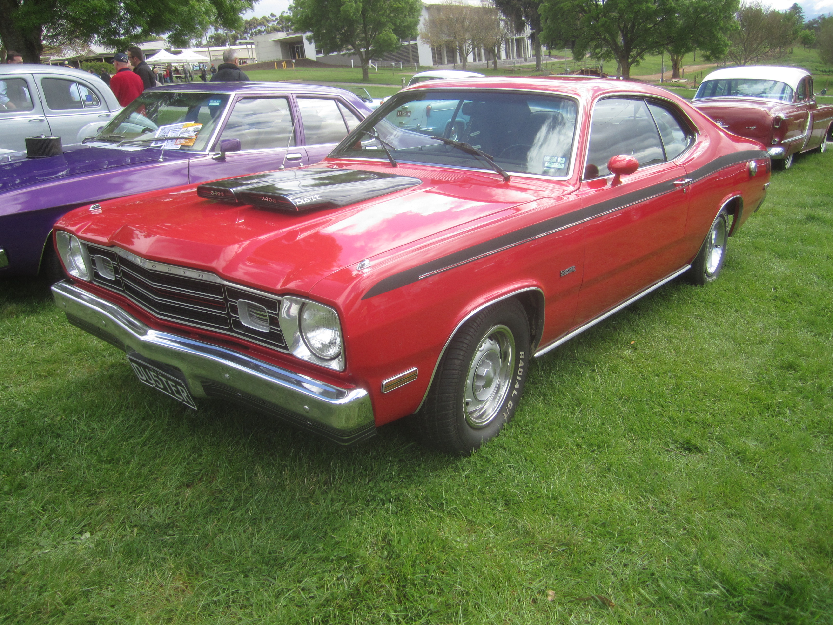 The Plymouth Duster was a semi-fastback version of the Plymouth Valiant, produced in the US from 1970 to 1976 to compete with Fords Maverick and Chevs Nova. As the Barracuda went to a bigger platform in 1972, the Duster filled that compact performance car void. Following the design changes on the Valiant models, the Duster also received a new hood, grille, front fenders, bumpers, and taillights for 1973 The Duster was available in two models; the standard Duster and a performance-oriented Duster 340. Engine options were 198 cu in and 225 cu in versions of Chrysler's Slant Six, as well as the 318 cu in and 340 cu in